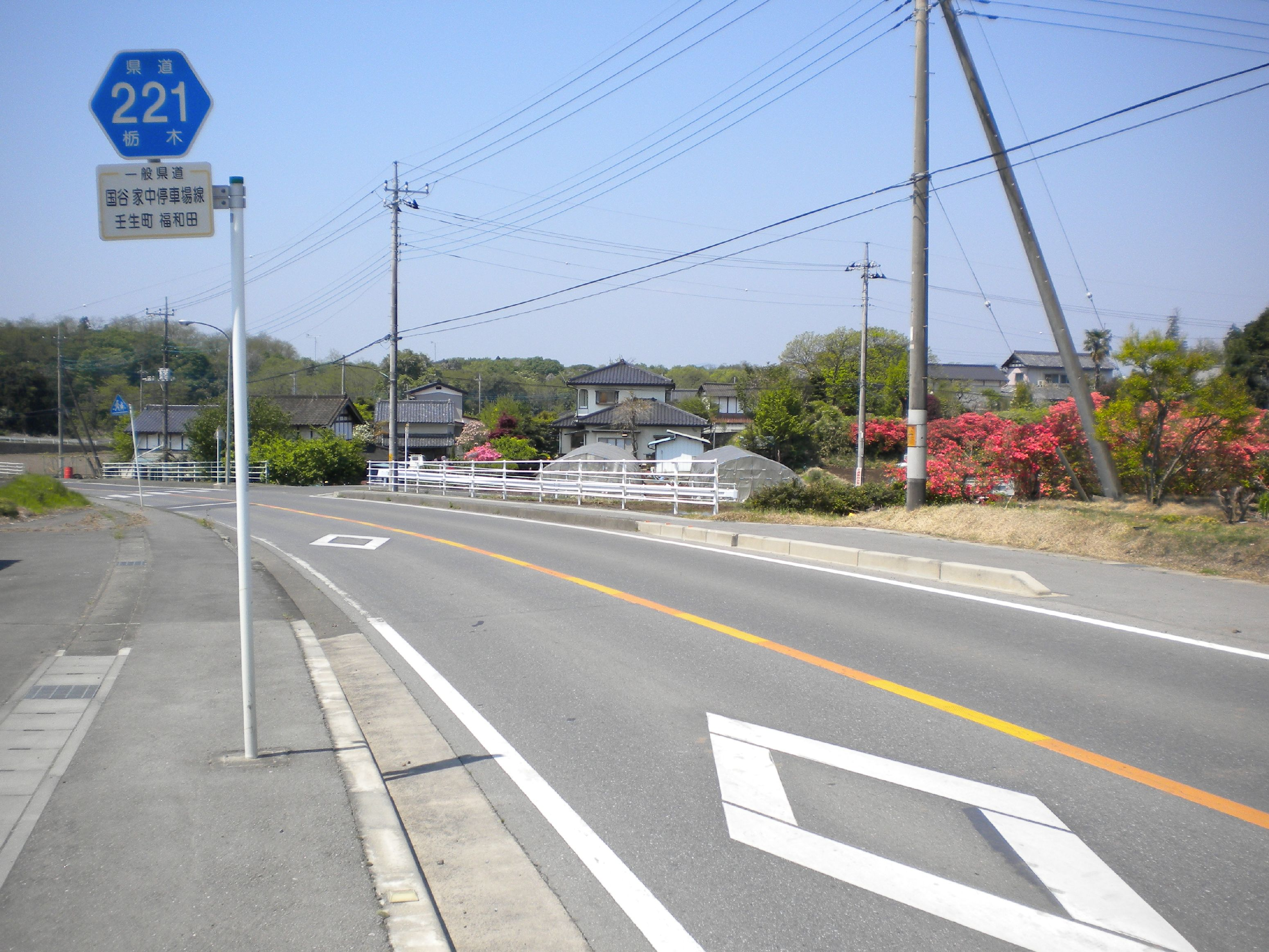 Tochigi prefectural road No.221 on Mibu town